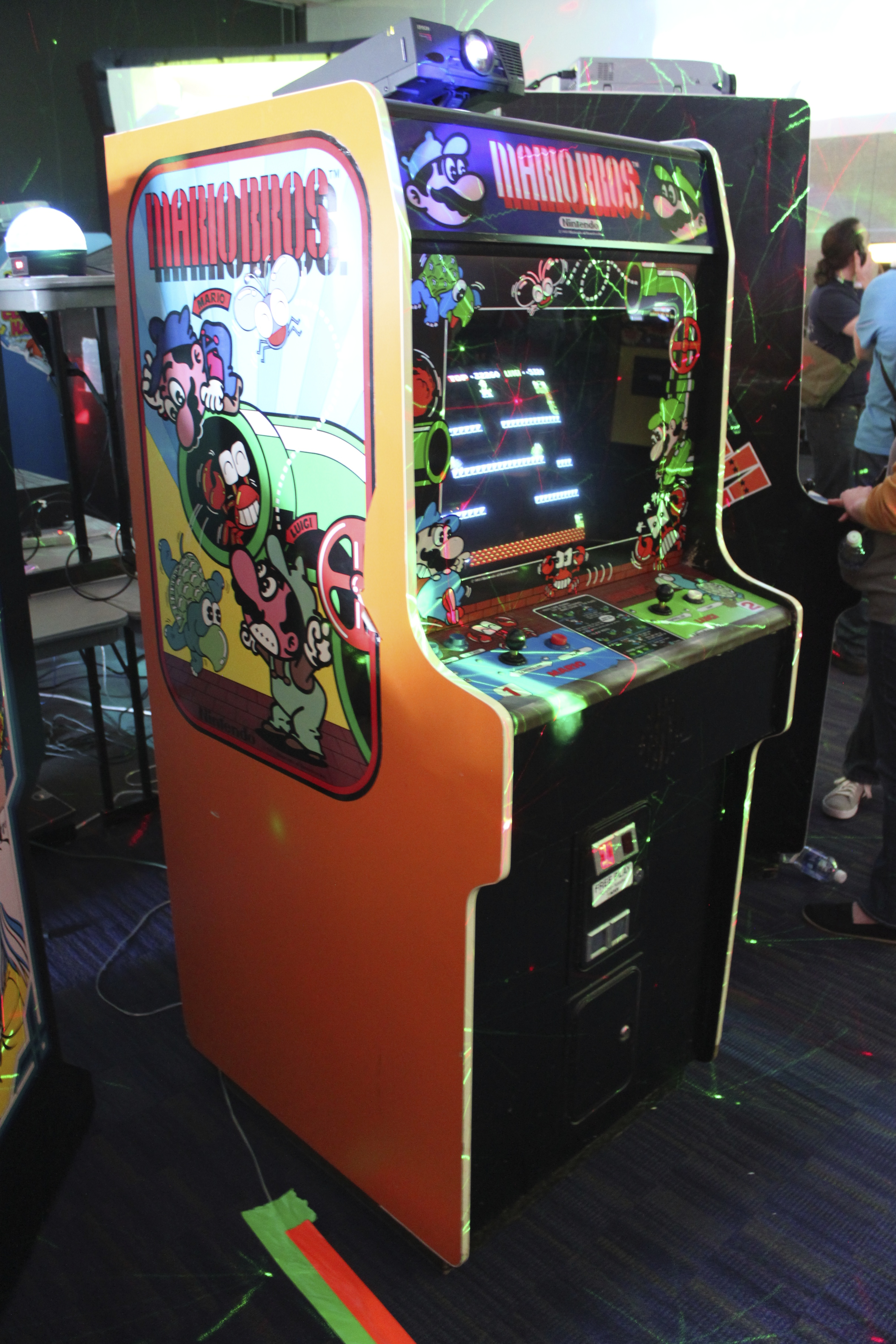 Mario Bros. cabinet at PAX East 2014